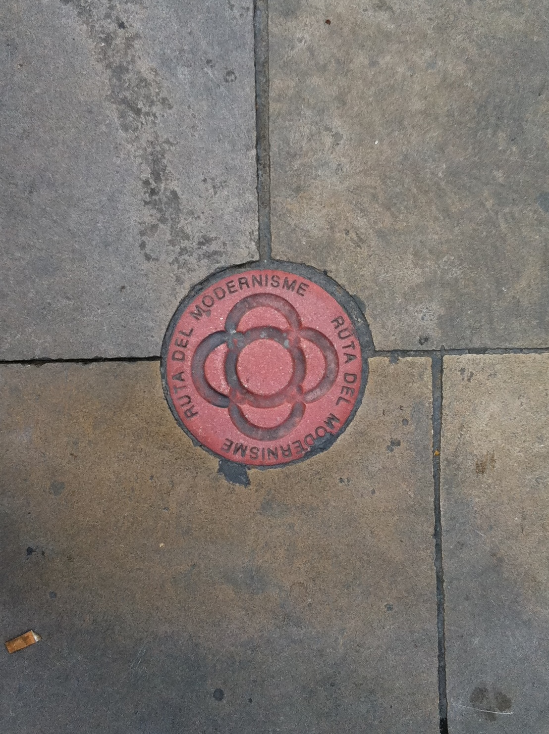 Ruta del Modernisme